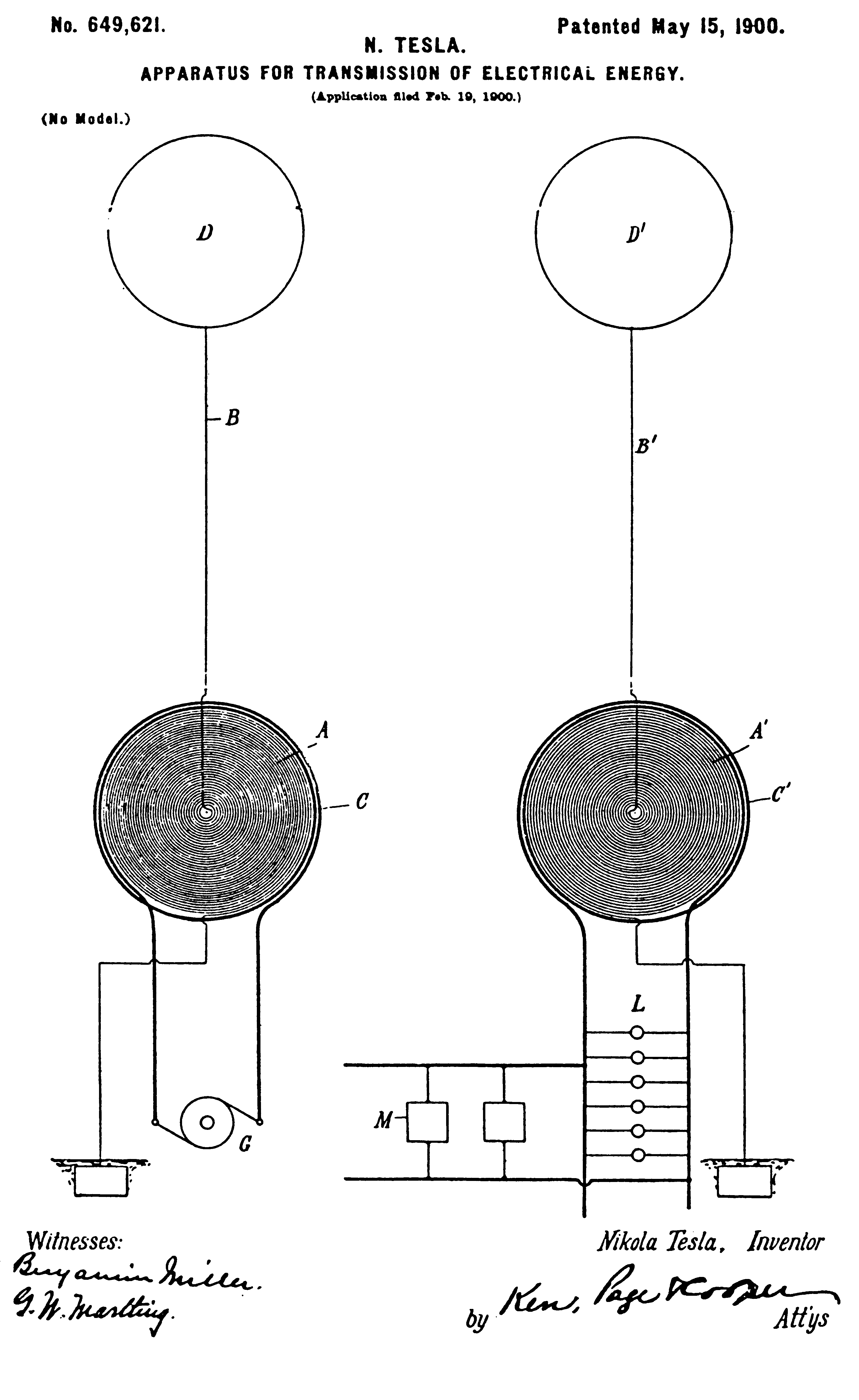 Drawing from U.S. Patent No. 649,621, "Apparatus for Transmission of Electrical Energy" showing a system for the wireless transmission and reception of electrical energy through the earth’s rarefied upper atmosphere with ground for return.